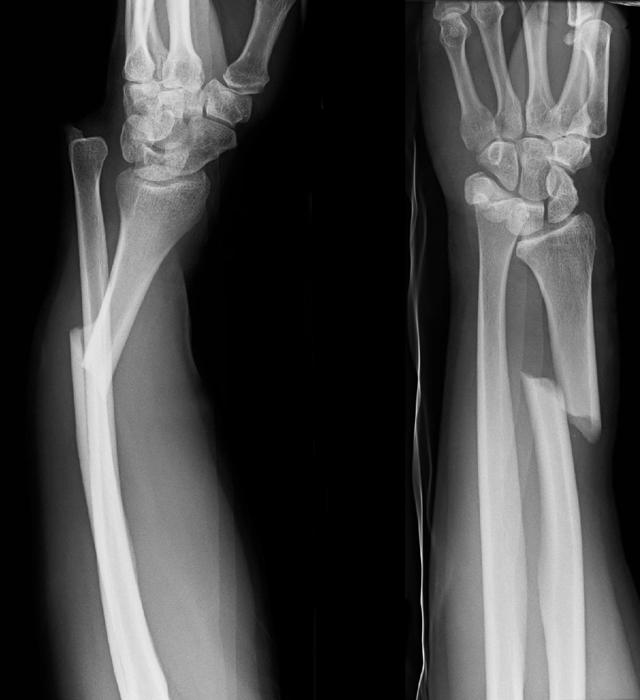 Galeazzi fracture consist of fracture of the distal radius with dislocation of distal radioulnar joint. This is an edited version of the source image made for use in the "Anatomist" iOS and Android app and shared here under the terms of the source image's Share Alike Creative Commons license.